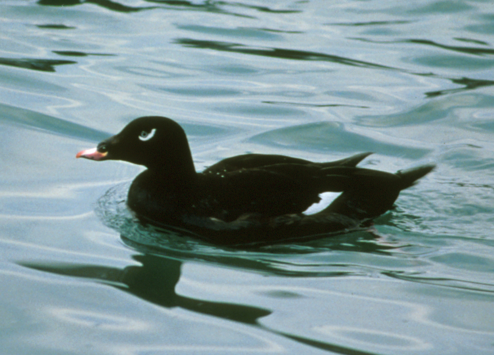 White-winged Scoter Melanitta deglandi, male, Kodiak Island, Alaska. first upload: 2003-10-10 on Wikipedia by User:Jimfbleak Listed at source as Melanitta fusca; image taken in Alaska, so it is the former subspecies M. f. deglandi, now M. deglandi.